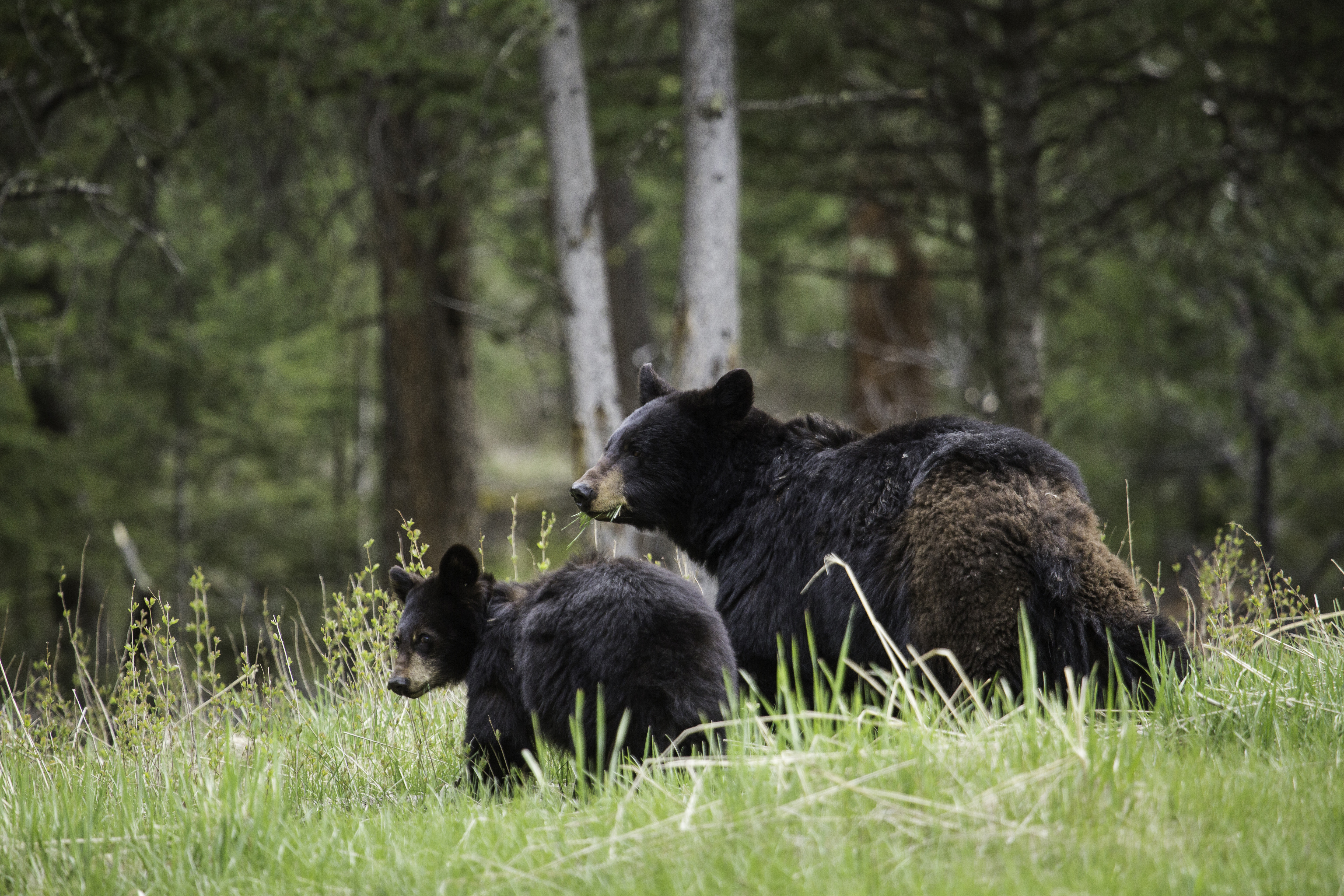 Black bear sow with cub near Tower Fall; Neal Herbert; May 2015; Catalog #20108d; Origianl #ndh-yell-7658